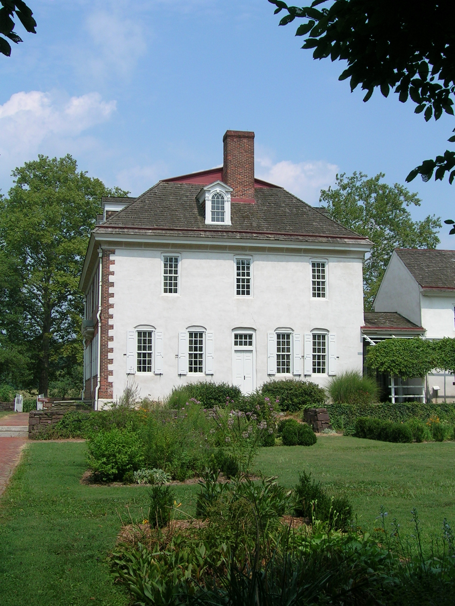 Hope Lodge